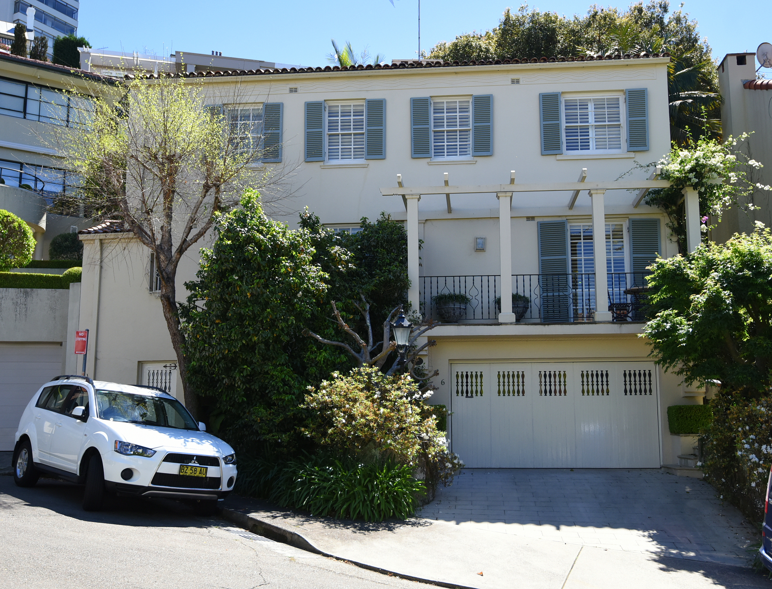 House designed by Leslie Wilkinson, Wiston Gardens, Double Bay, Sydney